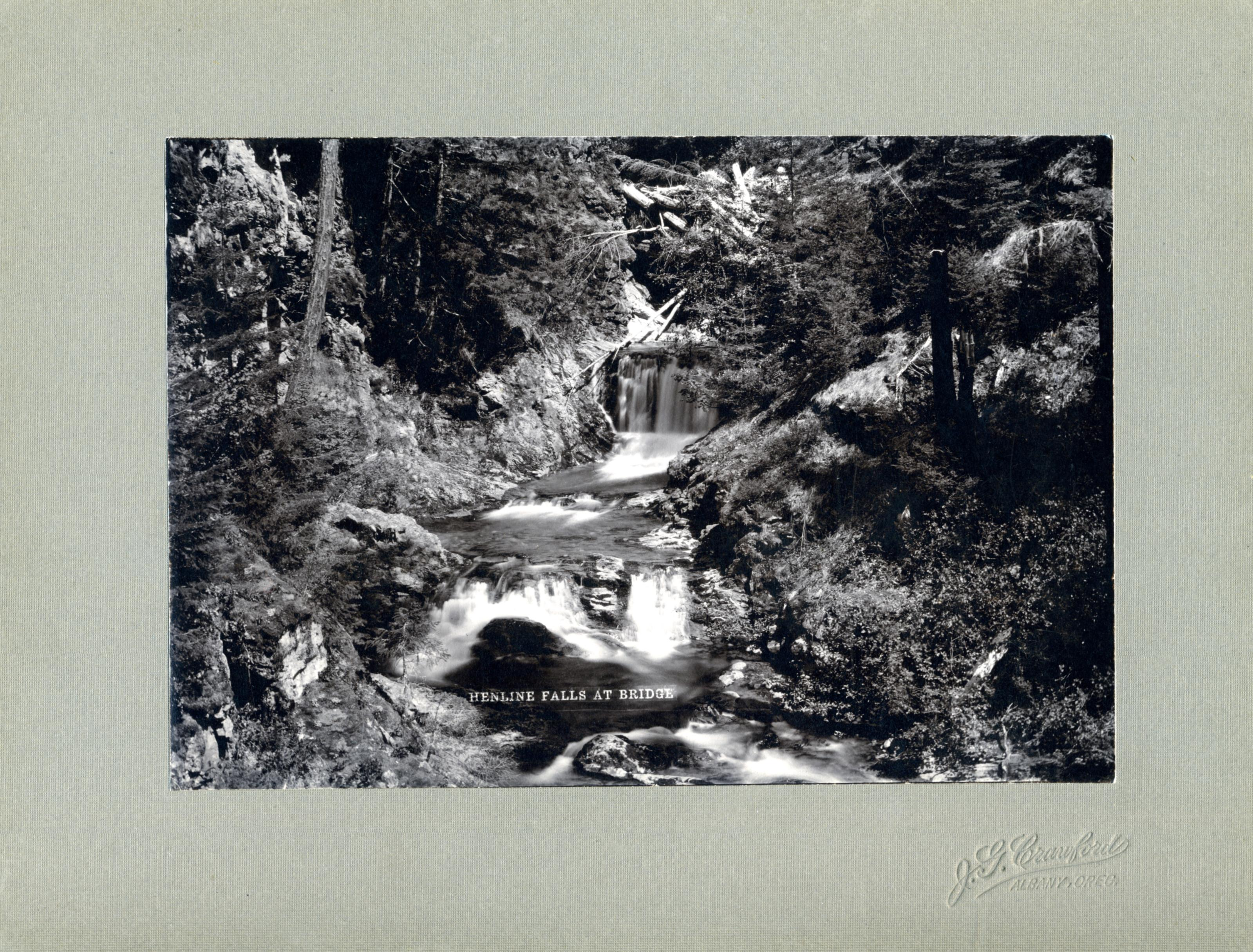 Original Collection: Gerald W. Williams Collection, 1855-2007 Item Number: WilliamsG: SVHenline You can find this image by searching for the item number by clicking here. Want more? You can find more digital resources online. We're happy for you to share this digital image within the spirit of The Commons; however, certain restrictions on high quality reproductions of the original physical version may apply. To read more about what “no known restrictions” means, please visit the Special Collections & Archives website, or contact staff at the OSU Special Collections & Archives Research Center for details.